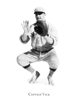 Ernie Vick, captain of the University of Michigan baseball team.